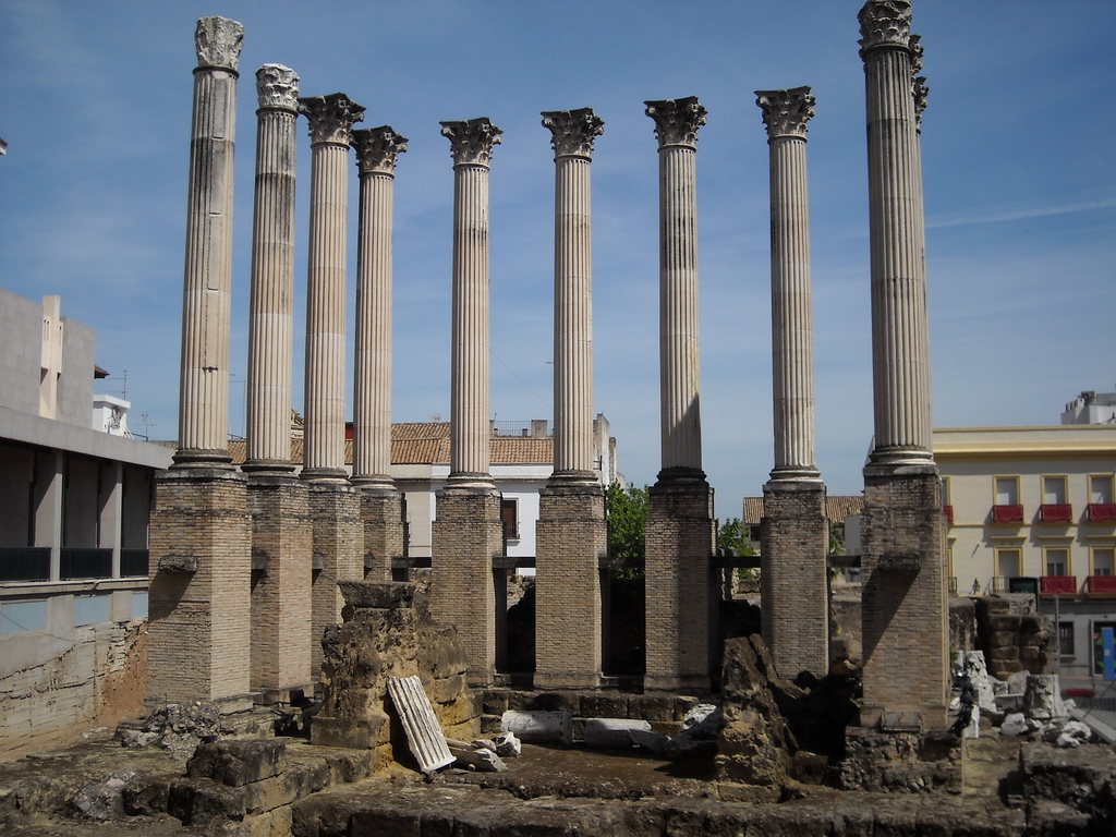 Roman temple of Córdoba, Spain.